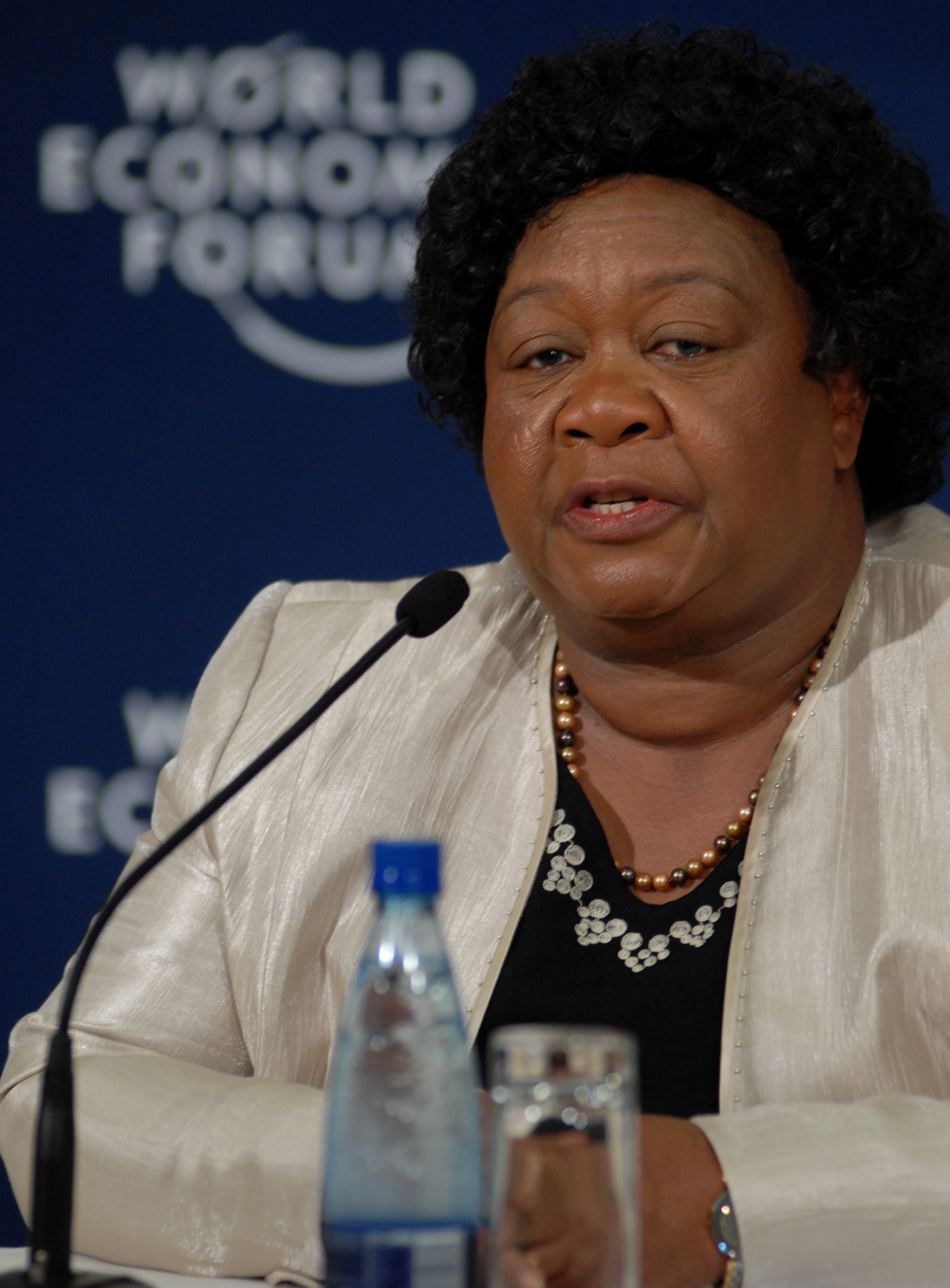 CAPE TOWN/SOUTH AFRICA, 11JUN2009 - Elizabeth Mataka, UN Secretary-General's Special Envoy for AIDS in Africa in the From Evidence to Implementation: Promoting Male Circumcision in Africa at the World Economic Forum on Africa 2009 in Cape Town, South Africa, June 11, 2009